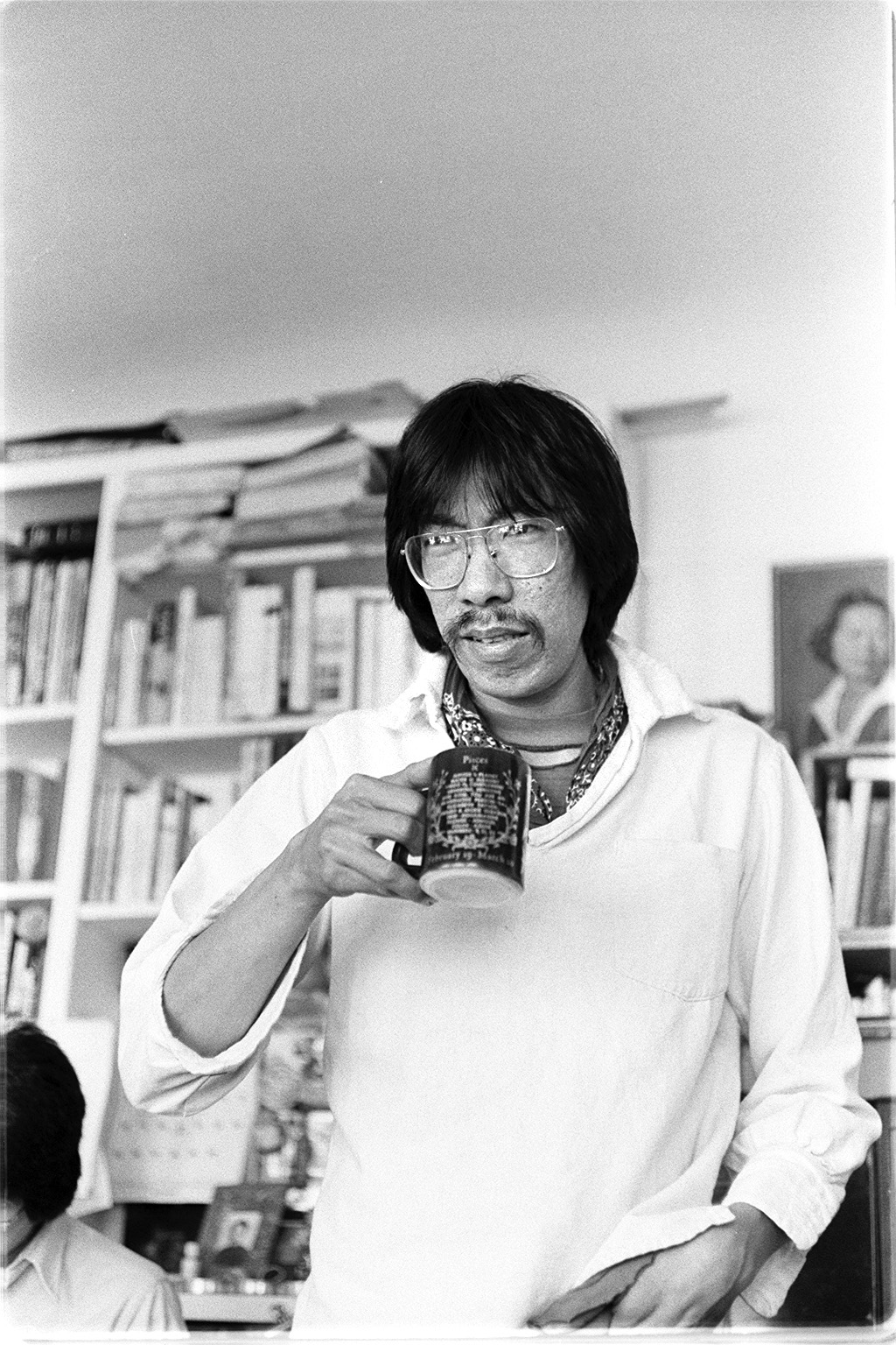 Writer Frank Chin in his San Francisco apartment in 1975.